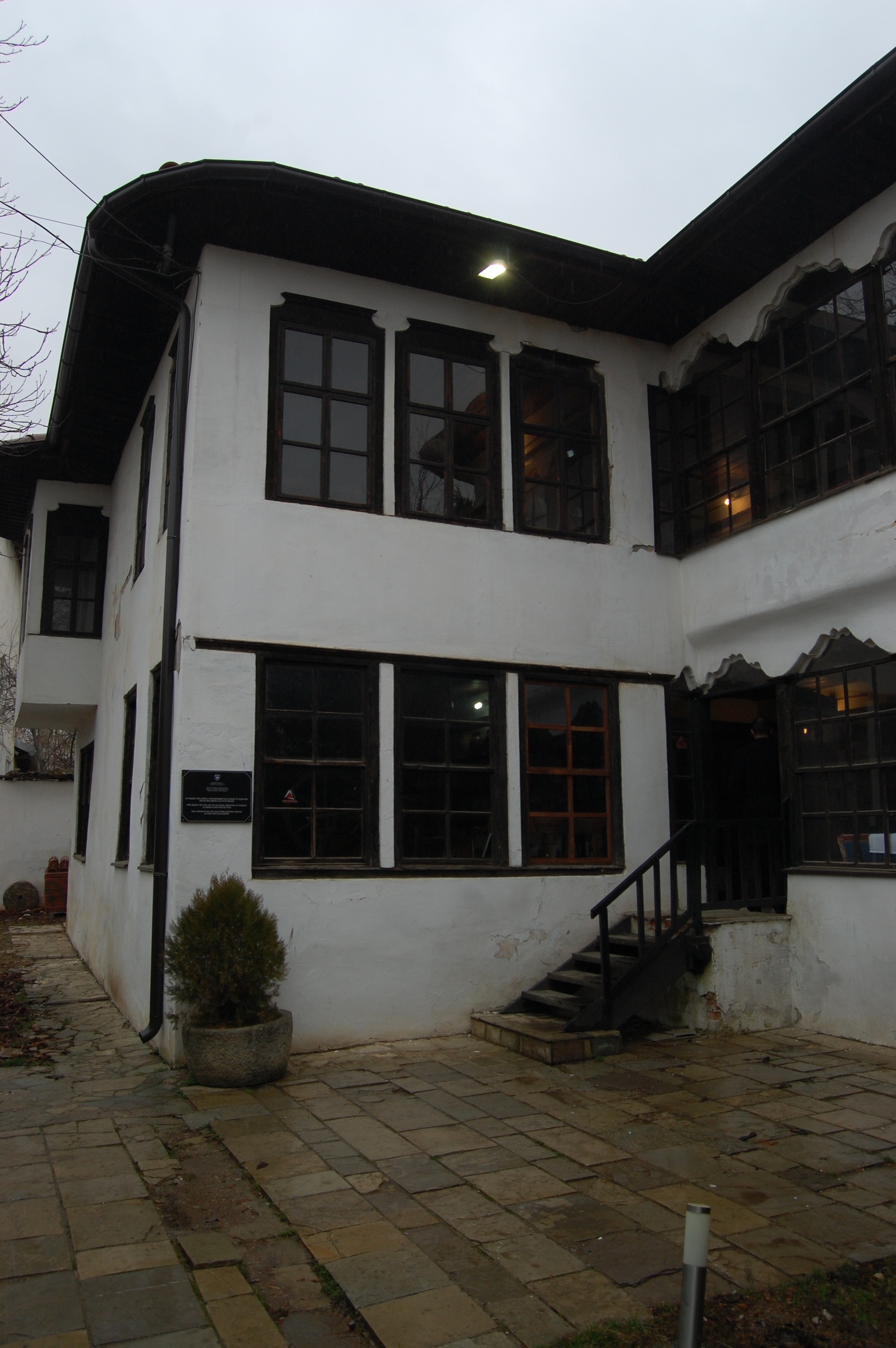 Ethnological Museum (Muzeu Ethnologjik Emin Gjiku), Pristina